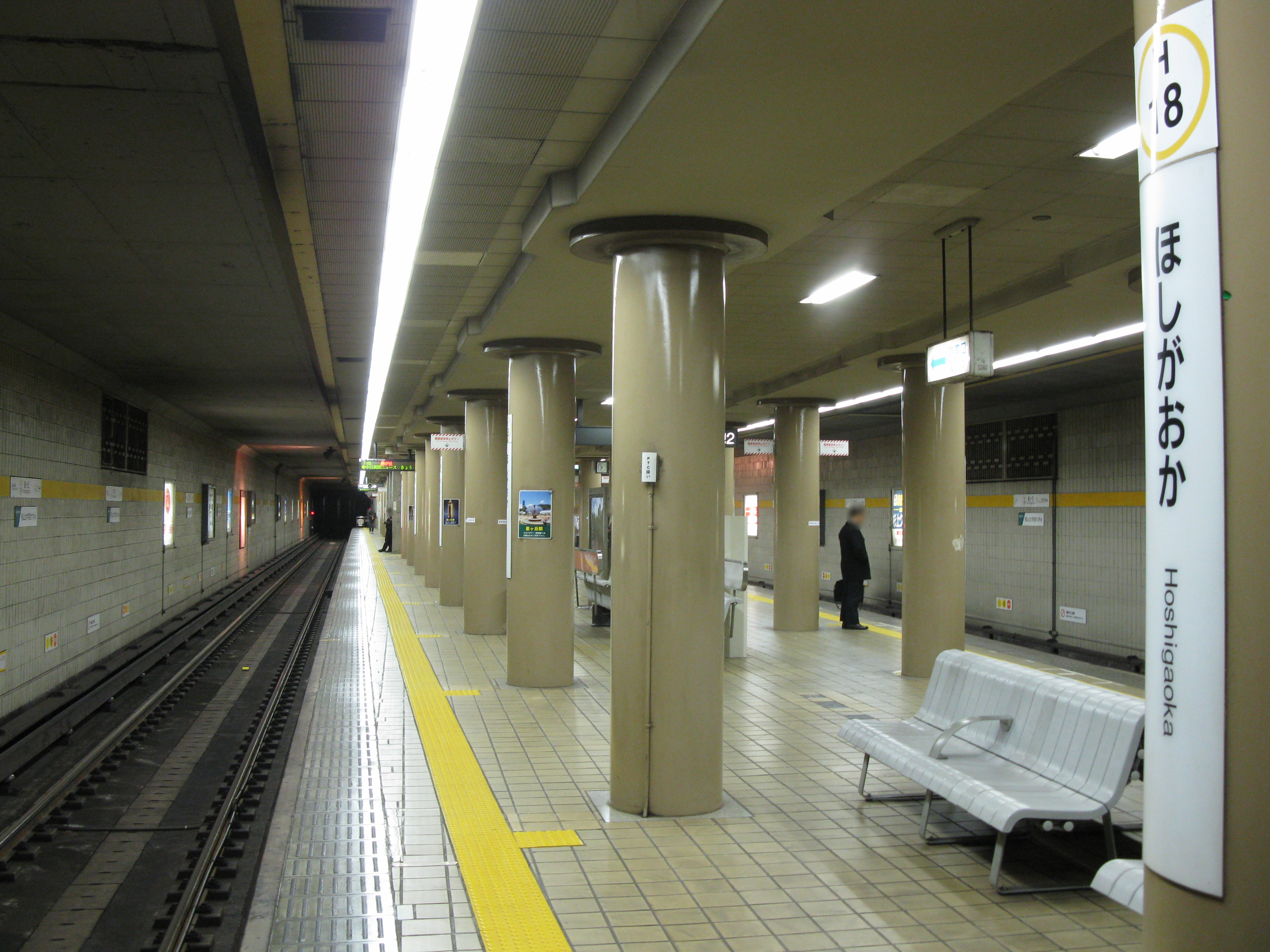 Hoshigaoka Station platform (Nagoya Municipal Subway Higashiyama Line)